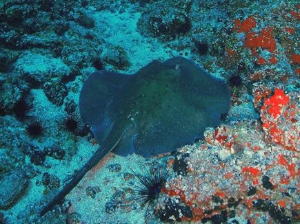 Round fantail stingray (Taeniura grabata) at Tenerife